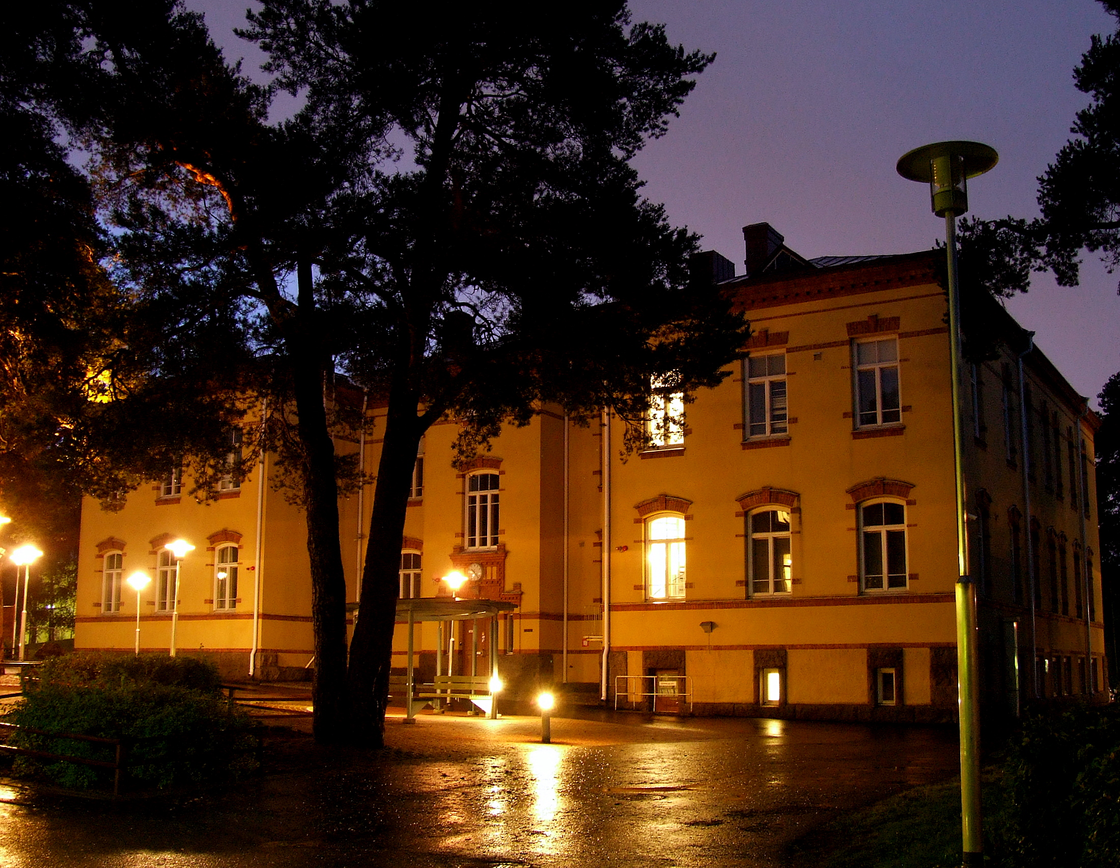 The school building of Tervaväylä schools's Merikartano unit. The school was established in 1898 for deaf children. The building was completed in 1902 and designed by architect Theodor Grandstedt.